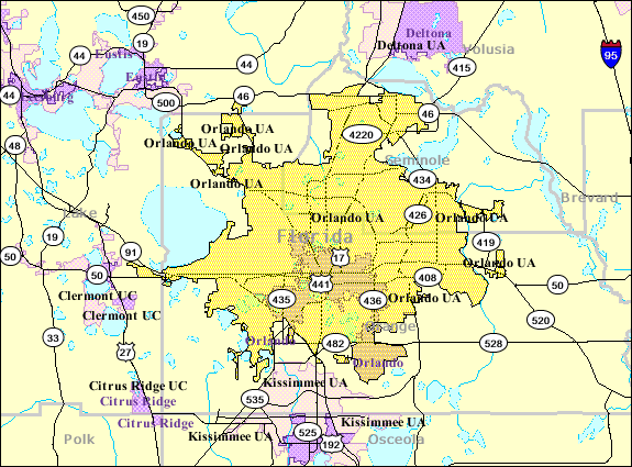 Map of Orlando, FL Urbanized Area as defined by United States Census Bureau